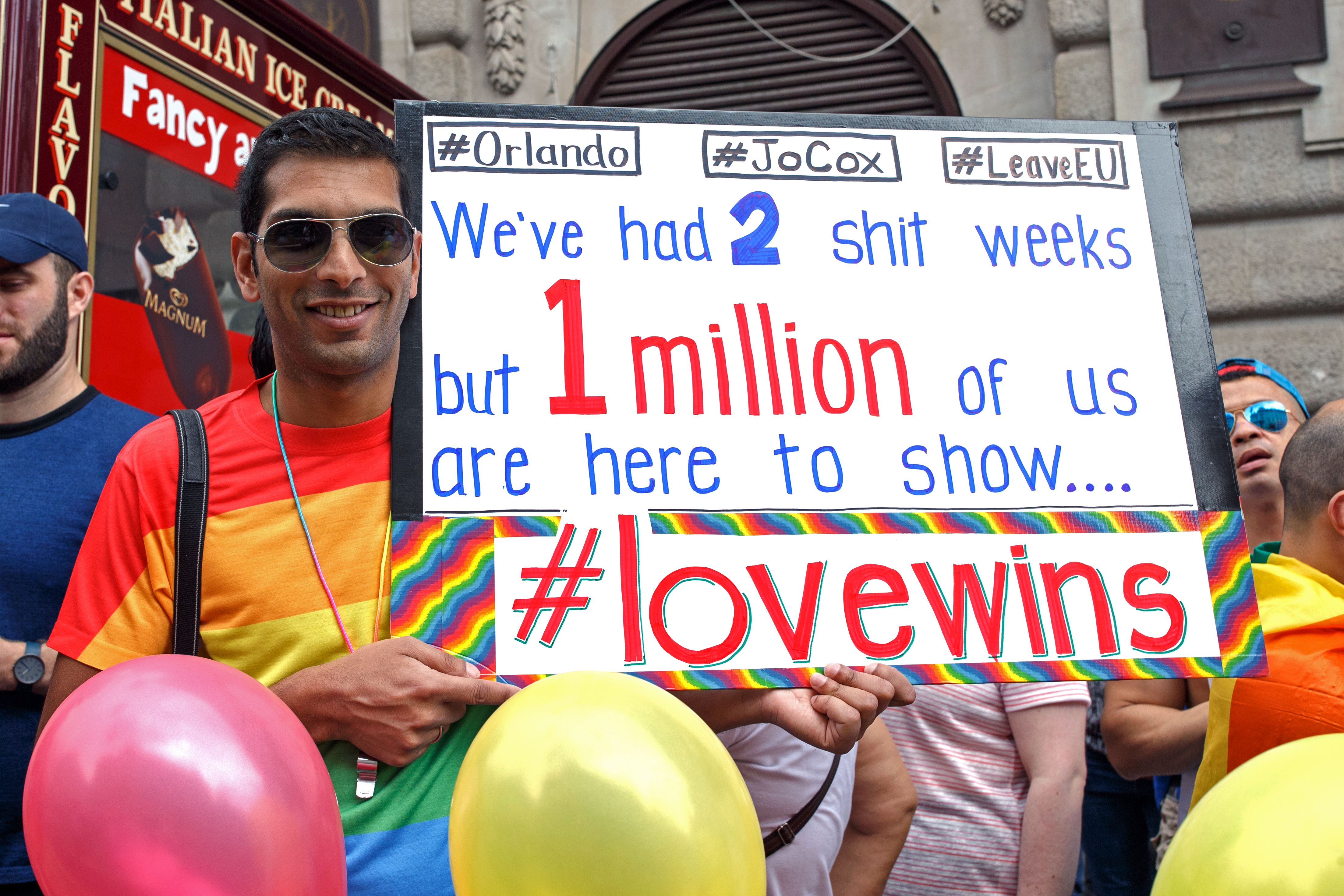 A man with a Love Wins sign in the crowd at Pride in London 2016. He expresses regret at the vote to leave the European Union, the murder of Jo Cox MP and the night club shootings in Orlando. The one-million reference is to the estimated attendance of the event.